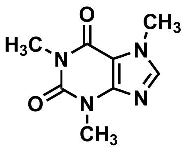 Caffeine molecular structure (ACS style).